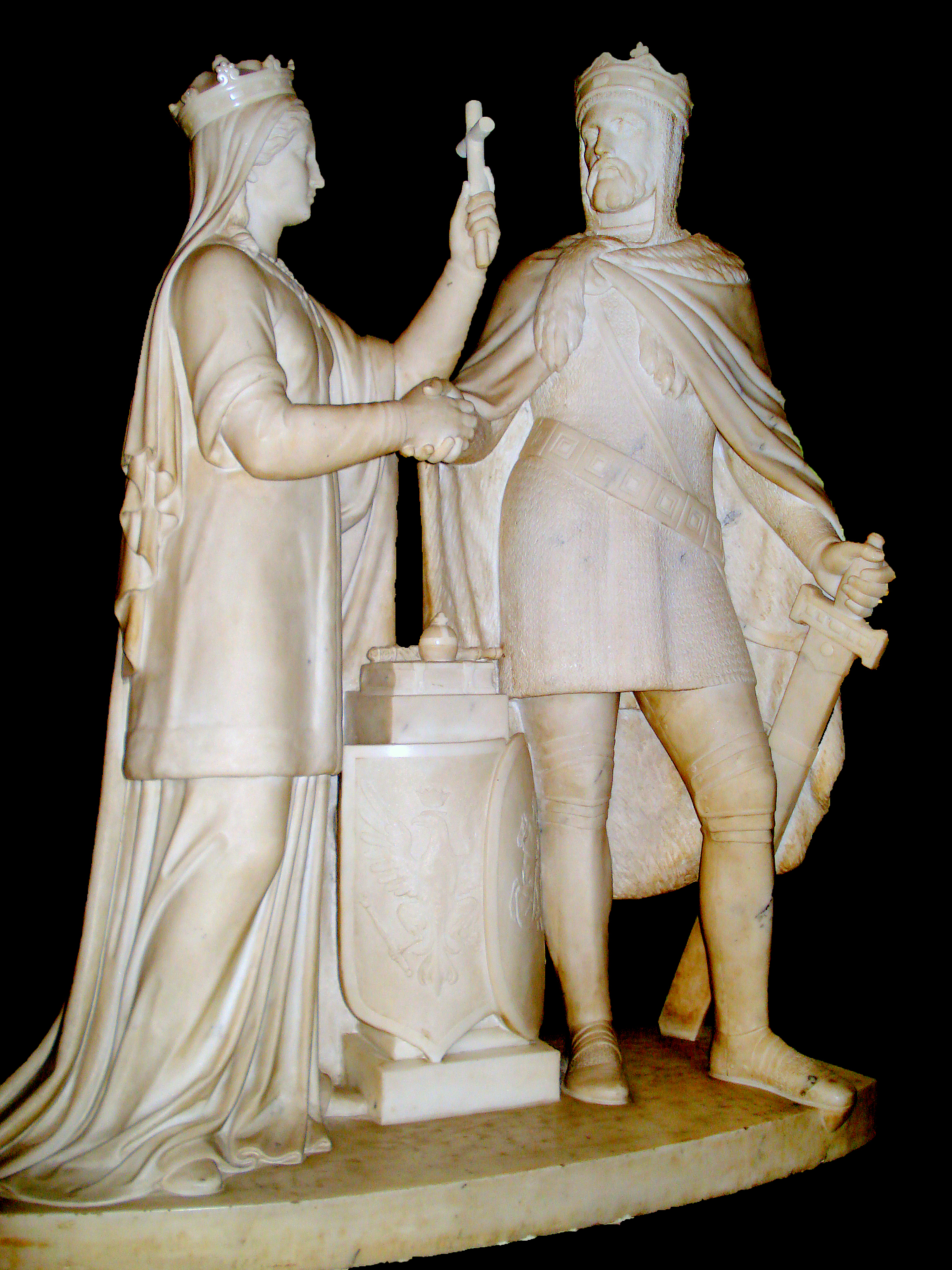 Jadwiga and Jagiełło, by Oskar Tomasz Sosnowski (1810-1888) in the Library of the Lithuanian Academy of Sciences (Vilnius)